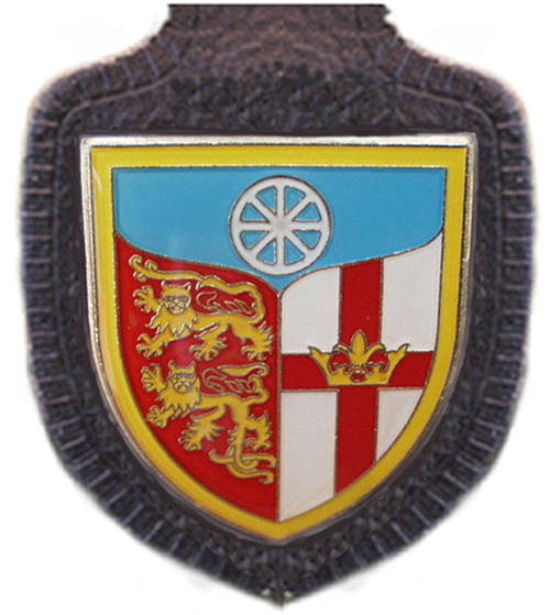 Corps Supply Command III